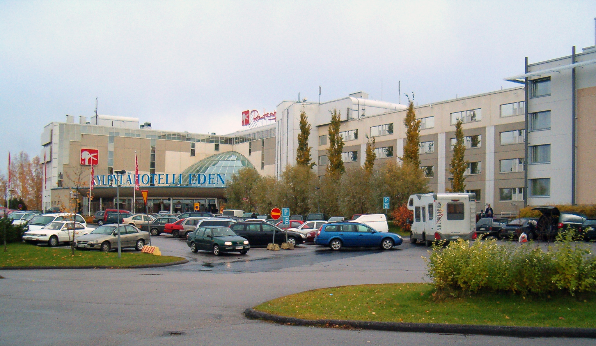 Kylpylähotelli Rantasipi Eden, Nokia